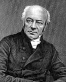 Cropped version of the PD image found here: Enhanced slightly using Photoshop CS2.